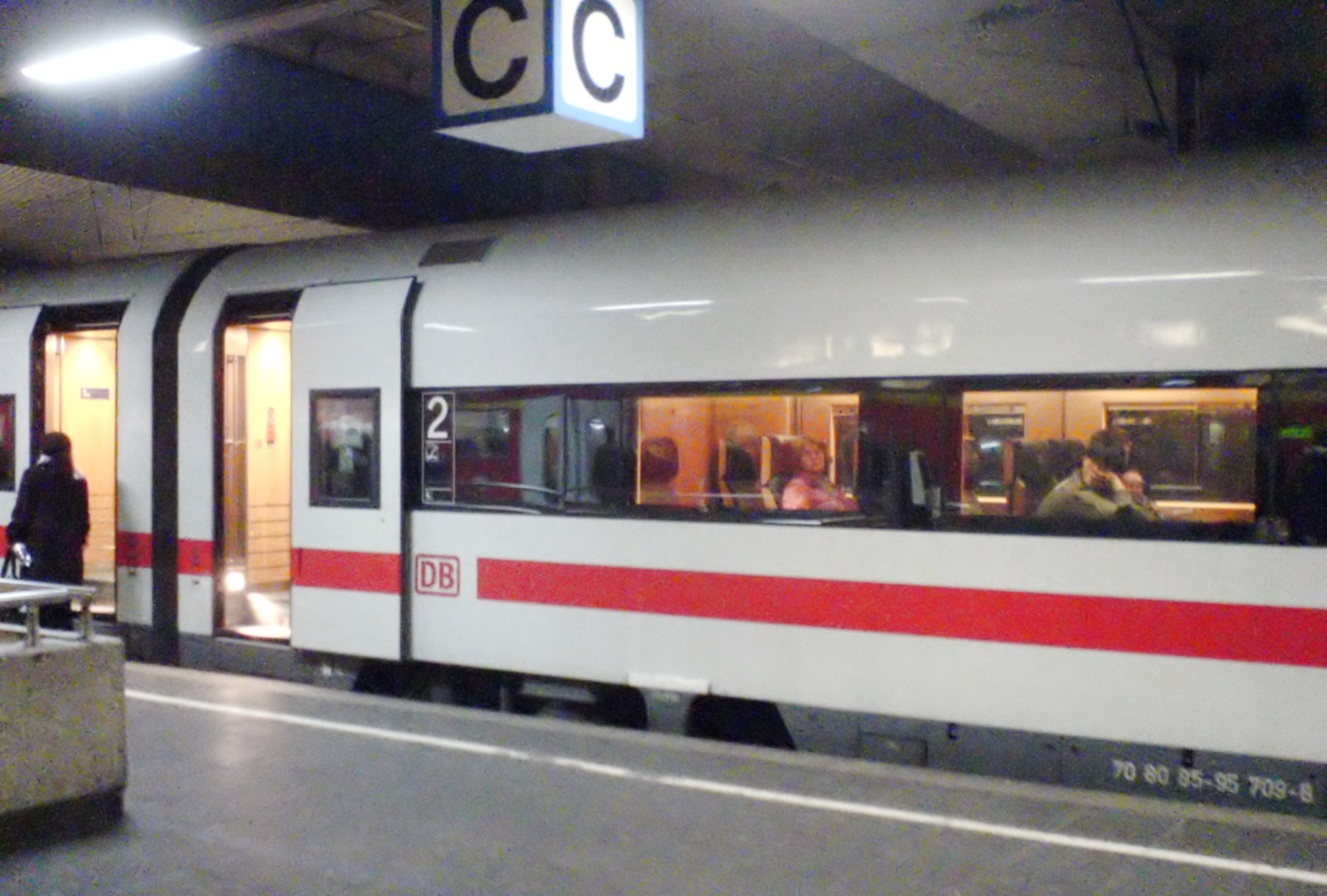 Coach of the former Metropolitan (No. 70 80 85 95 709-8, Apmkz116.6) used as Intercity coach in Düsseldorf.